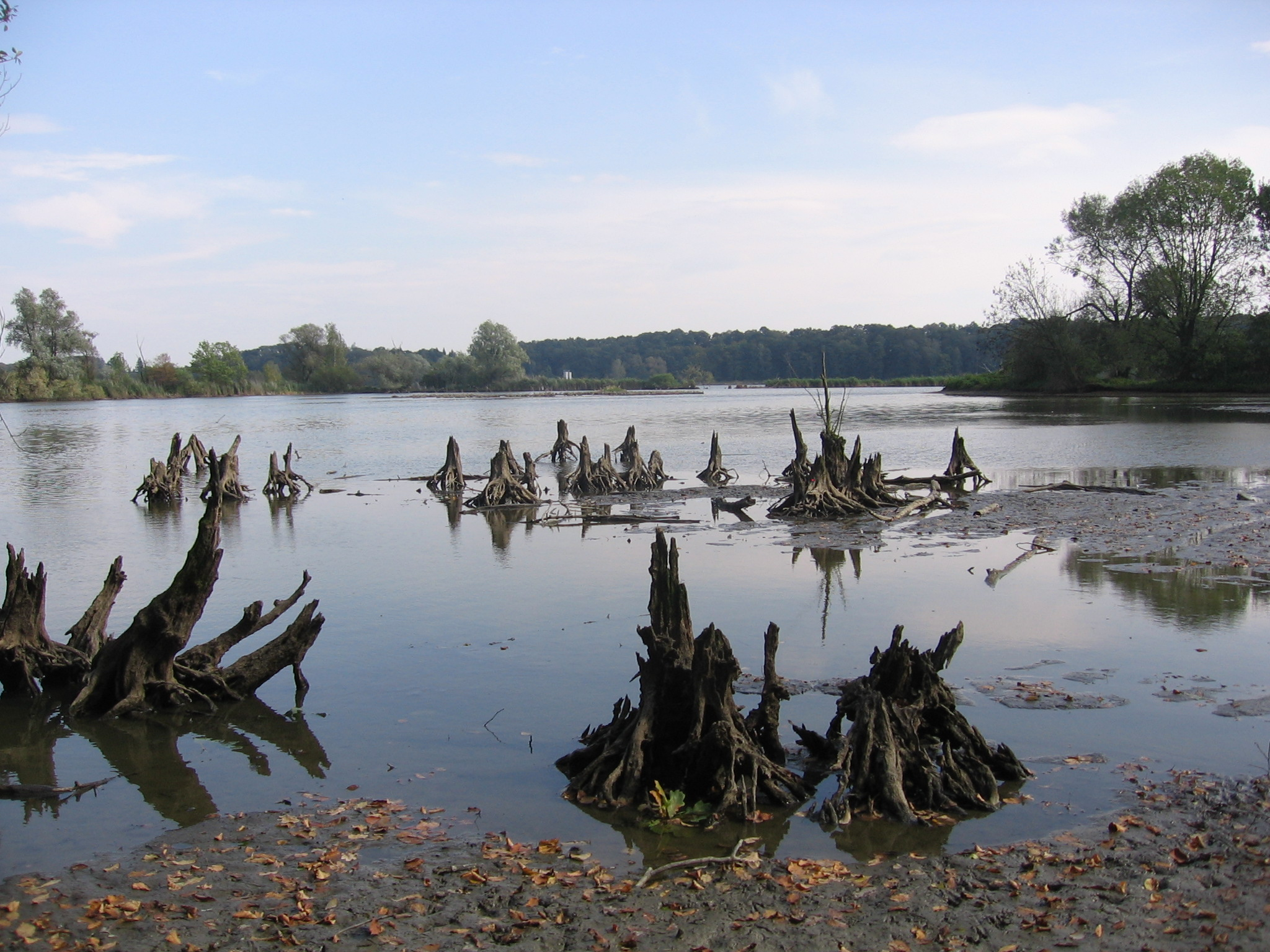 pond Kotvice in the Poodří protected landscape area. Near Studénka, North Moravia, Czech Republic.